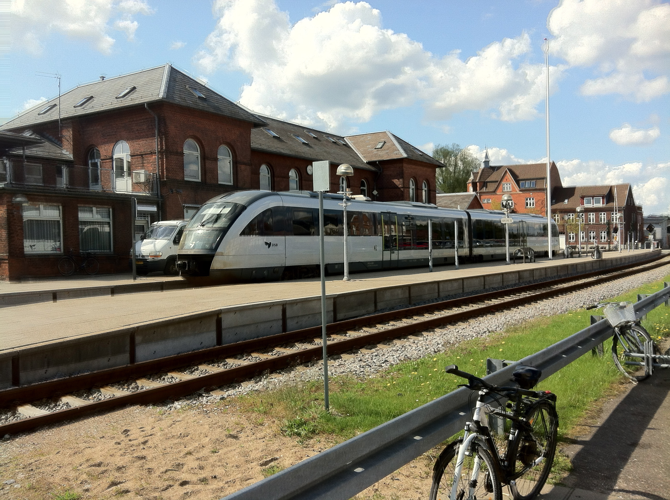 Odder Station with the Desiro trains in May 2013